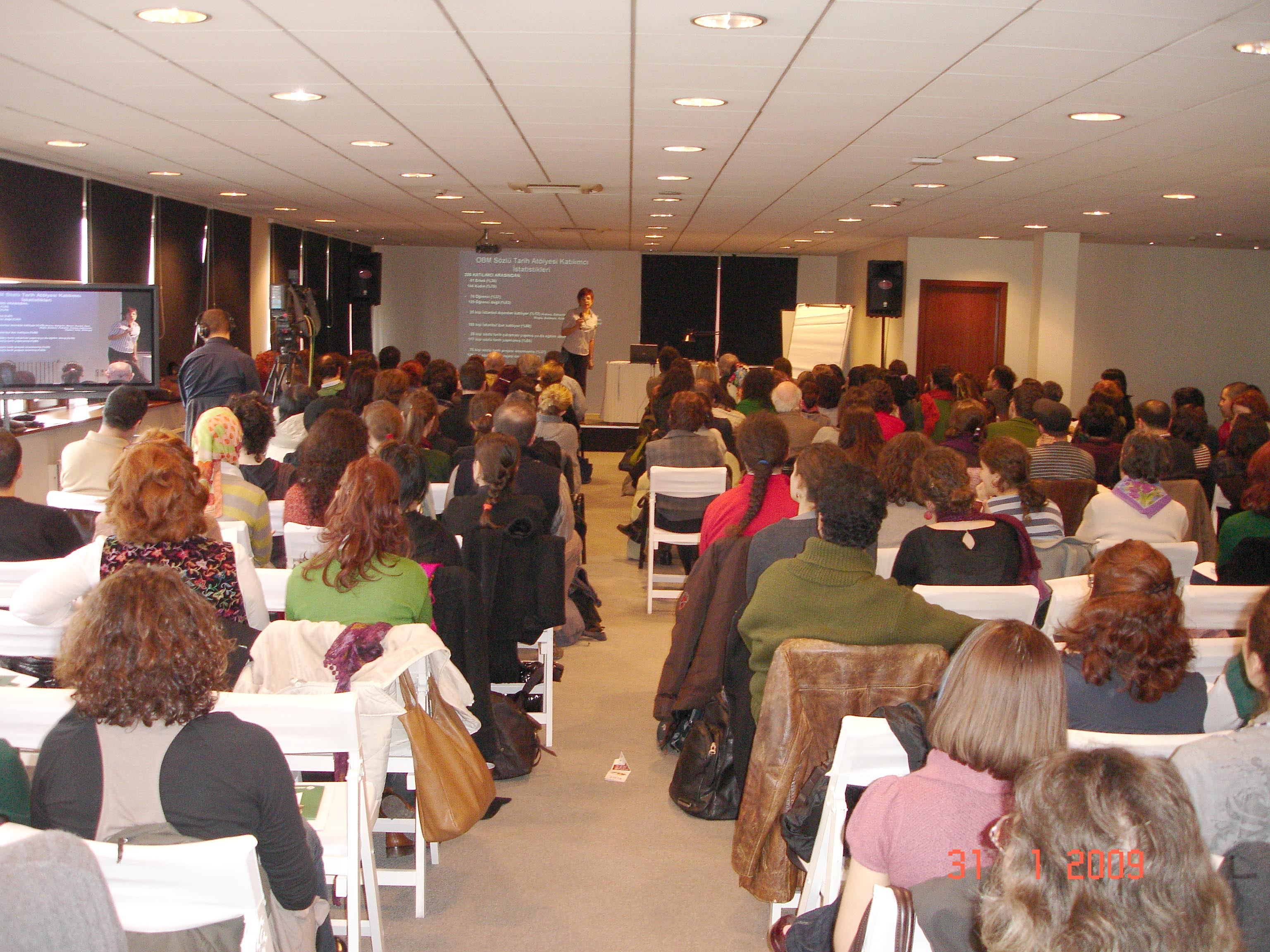 In 2009, the Ottoman Bank Archives and Research Centre organized Oral History Workshops in collaboration with Sabancı University and led by Assoc. Prof. Leyla Neyzi. These workshops investigated the contribution of oral history to the research and understanding of recent Turkish history. After a two-day workshop that addressed the emergence of oral history, its institutionalization, its methodology and ethics, weekly group sessions fostered scholarly oral history projects.